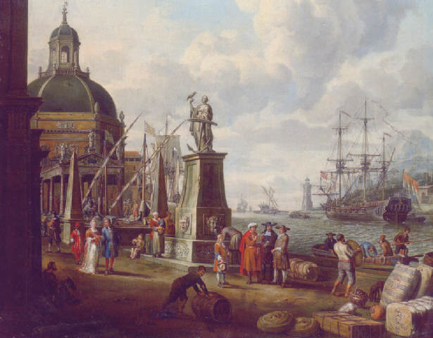 Mediterranean harbour with merchants, an elegant couple on the quayside, before a statue of Hope and a baroque church in Middelburg (Oostkerk)